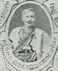 Portrait of IMARO member Ivan Dukov from Goleshevo